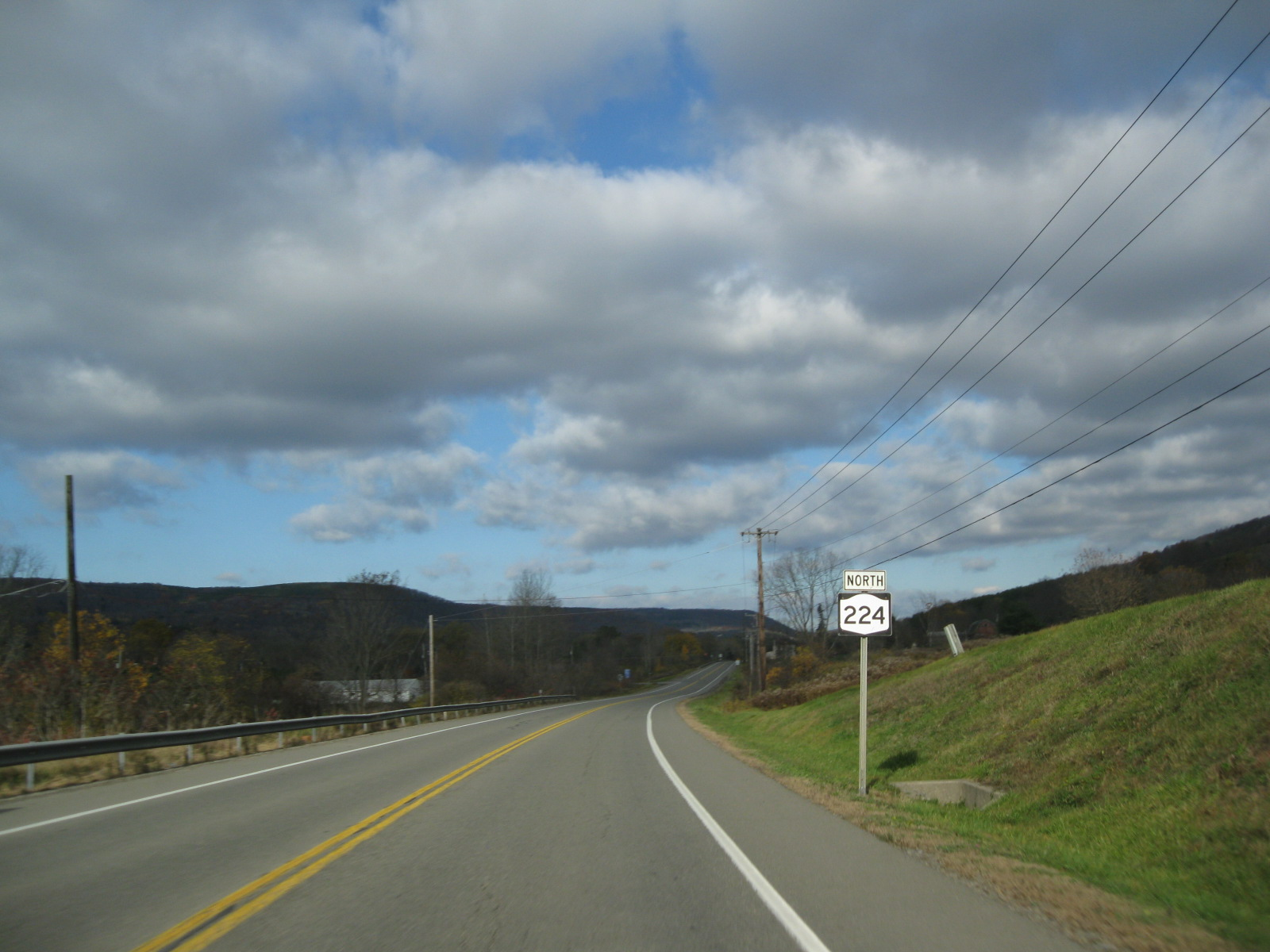 New York State Route 224 heading, signed north, due west in the town of Van Etten.